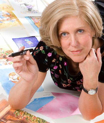 British children's writer and illustrator Kate Veale.